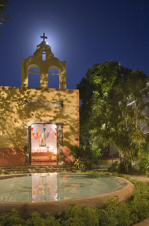 Chapel of the Hacienda San Jose — hotel in Tixkokob, Yucatán.